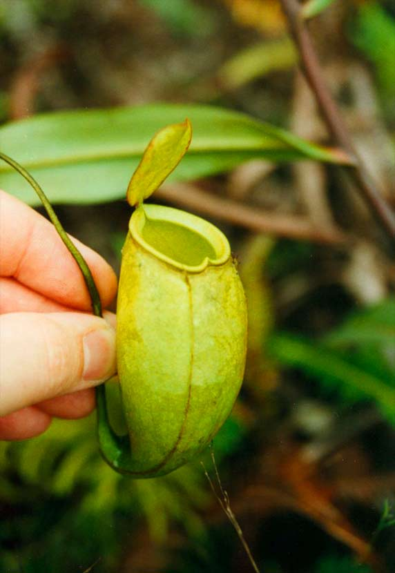 Nepenthes x trichocarpa Photo taken: 1998 in Malaysian jungle Author: David H. Wong